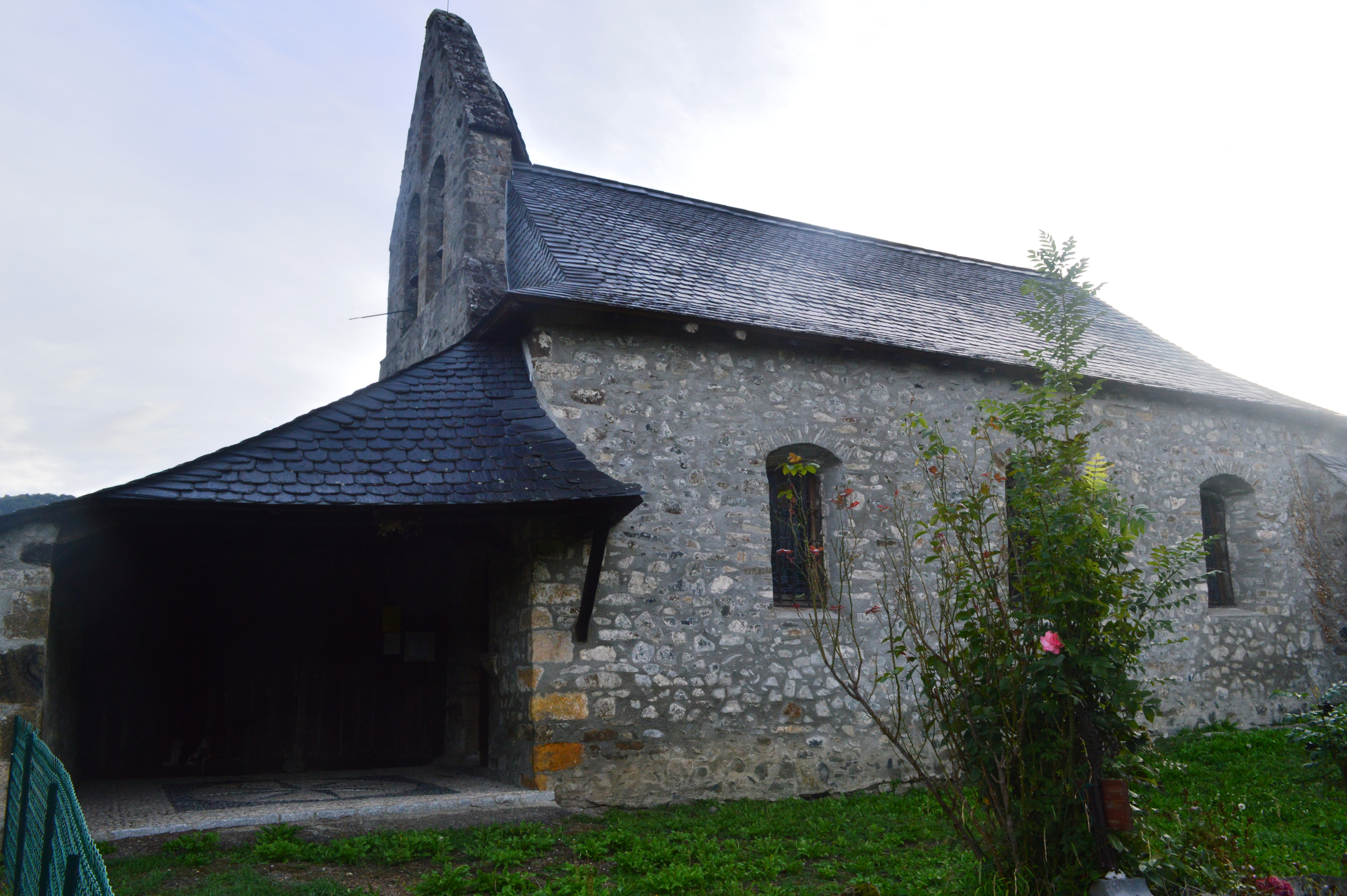 Aucazein Church